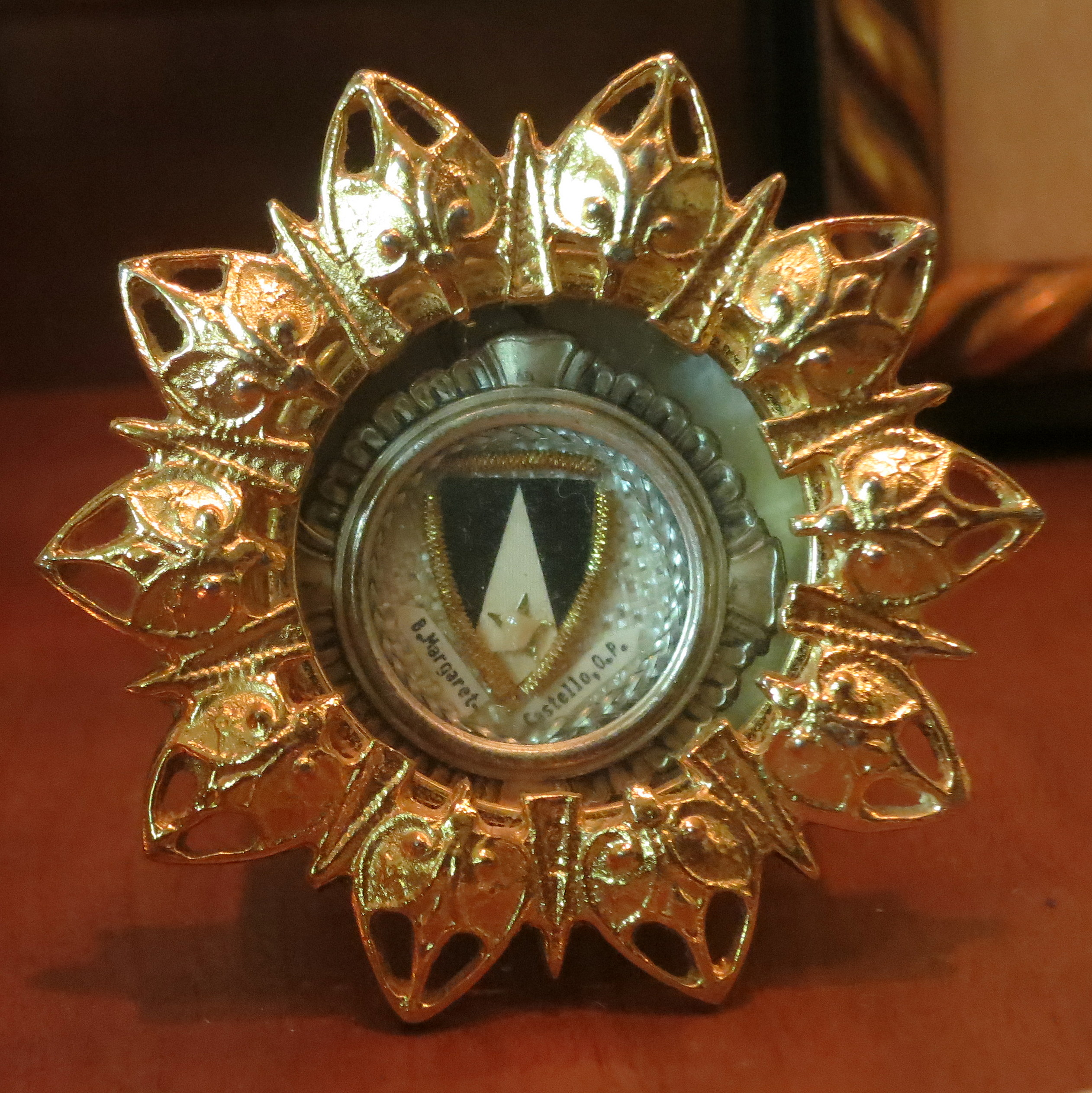 Saint Patrick Catholic Church (Columbus, Ohio) - relic of Margaret Castello